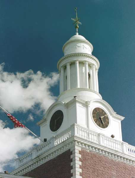 Green Hall Clock Tower at The College of New Jersey